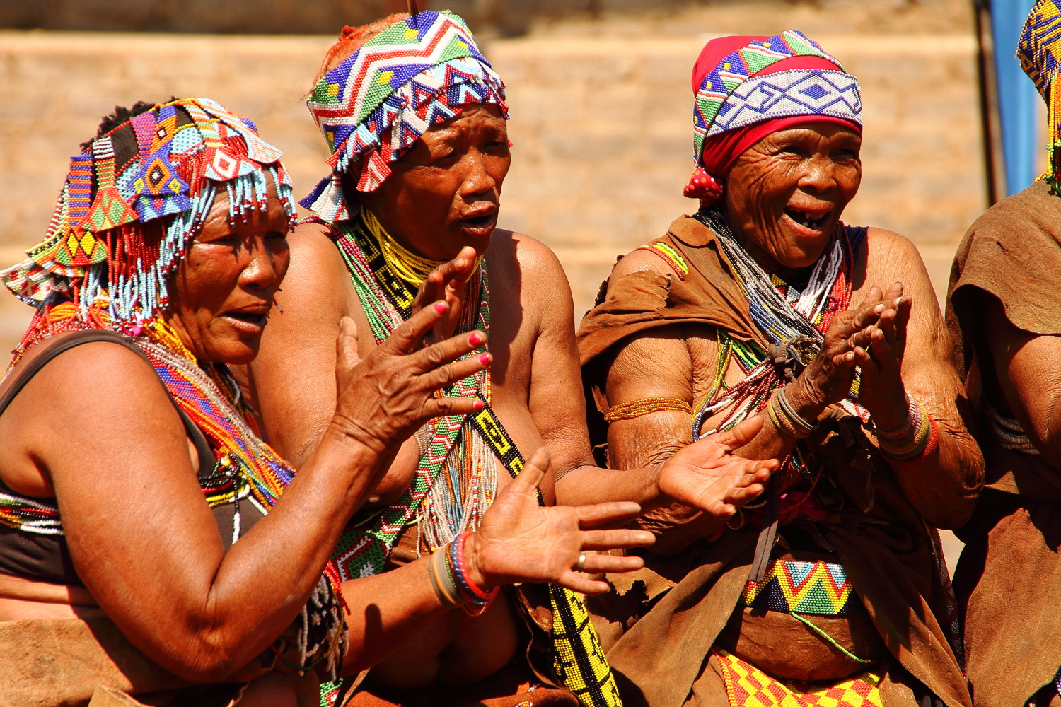 Sandance OneTime Films the Kuru Dance Festival at Dqae Qare Lodge Botswana This is an image from Botswana